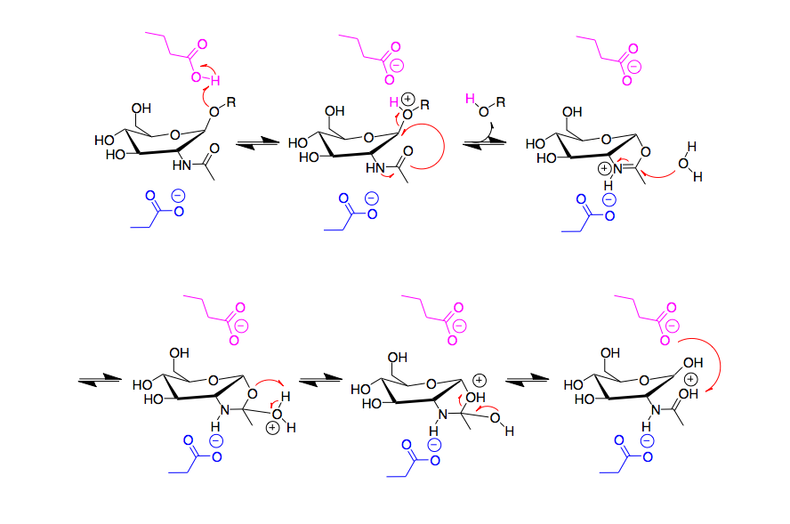 Mechanism of Dispersin B made in Chem Draw